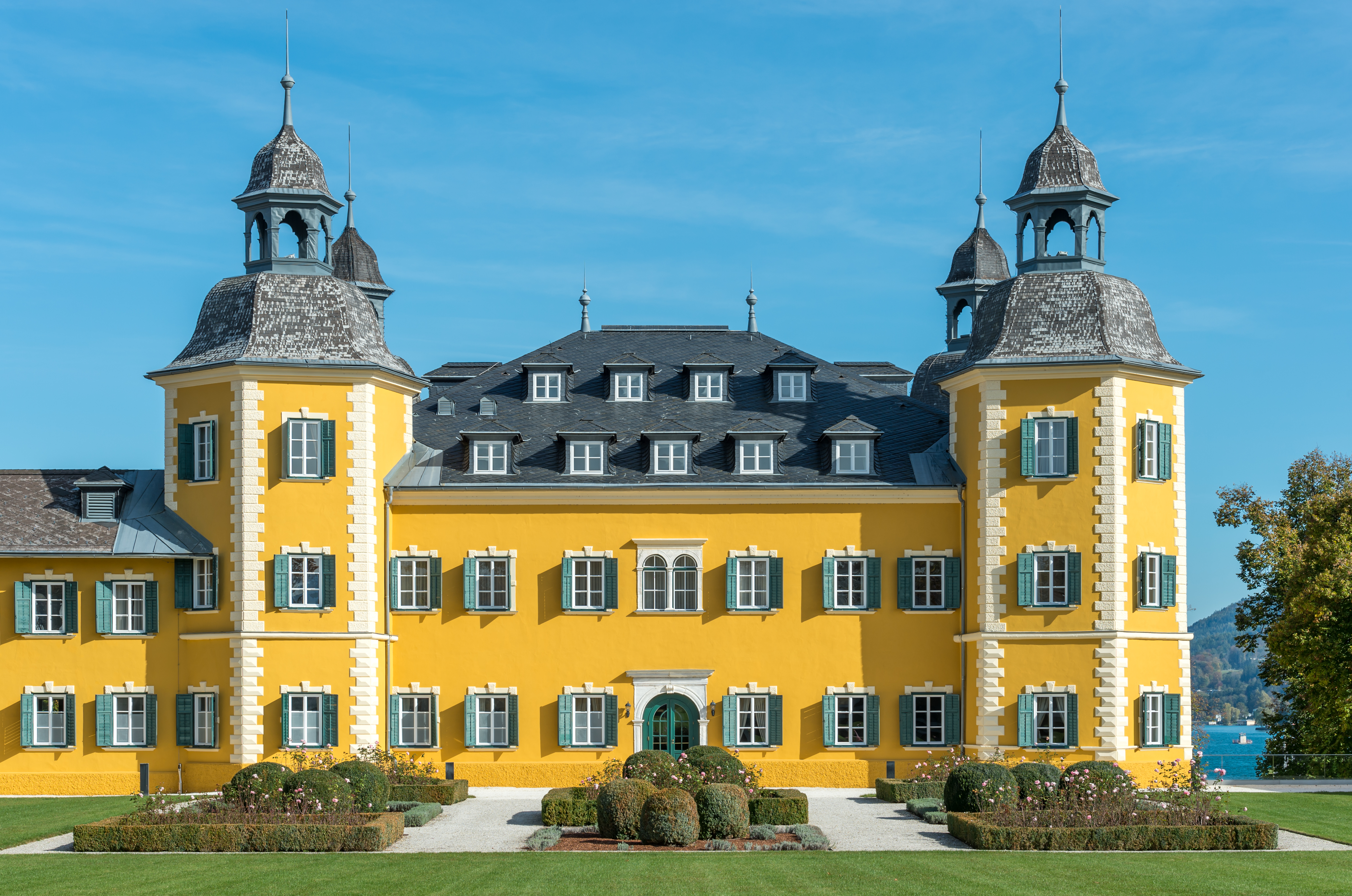 Castle hotel on Seecorso #10, market town Velden am Wörther See, district Villach Land, Carinthia, Austria, EU